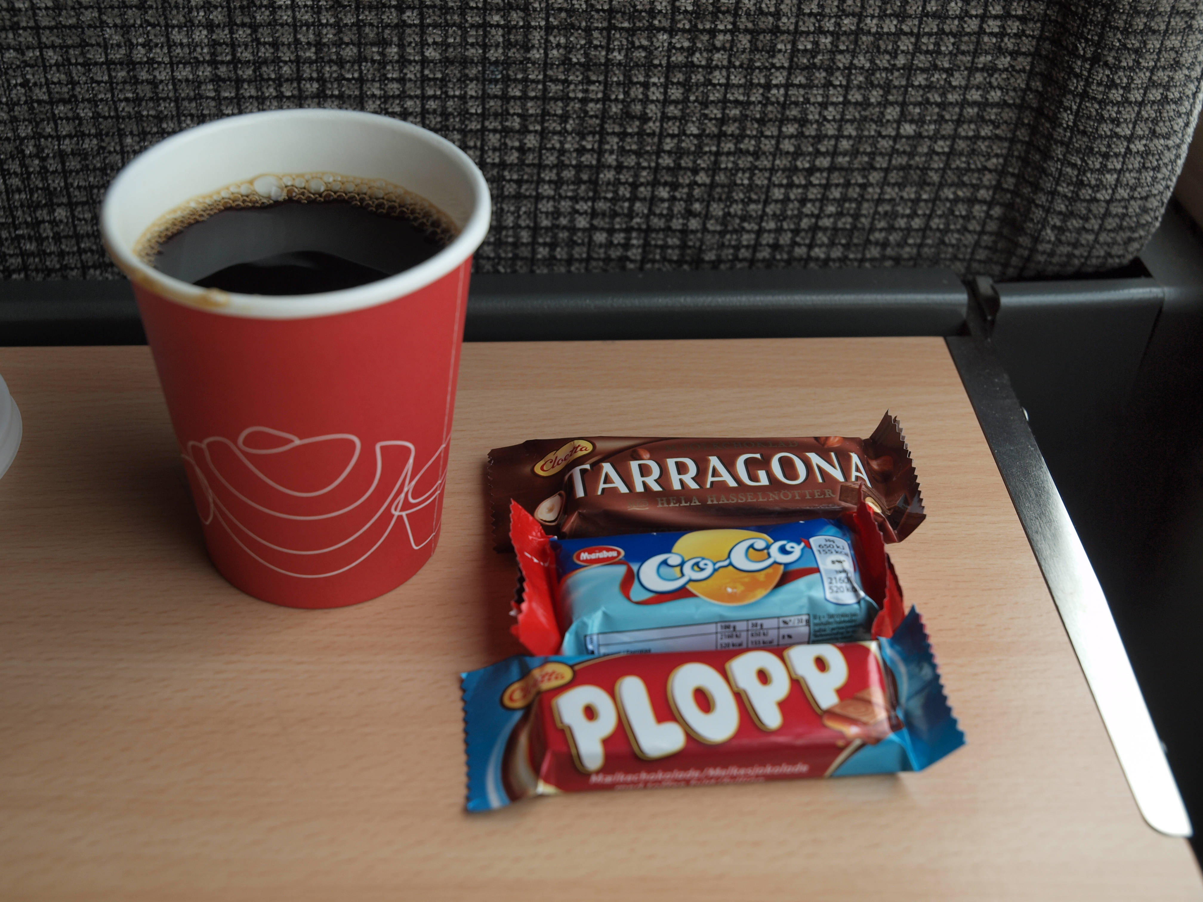 A cup of coffee and three mini-sized chocolate bars, brought from a bistro car aboard a Swedish train and taken to a passenger seat to be consumed. The bistro cars on Swedish trains sell three mini-sized chocolate bars as a special package deal, so I bought three different kinds.